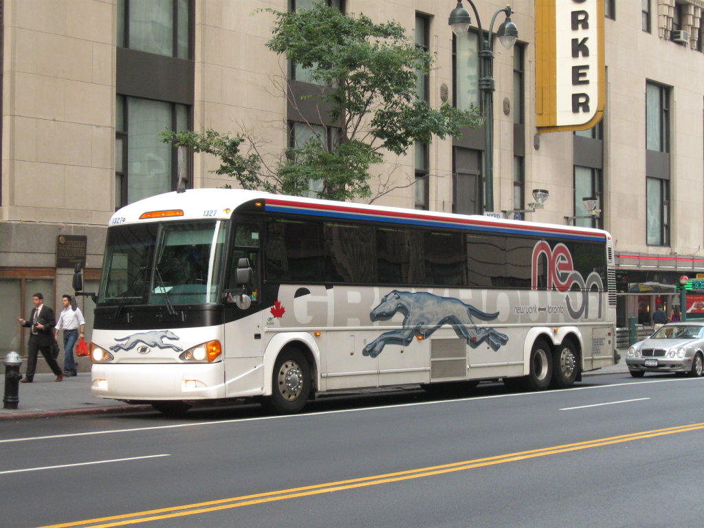 Greyhound Canada MCI D4505 #1327 drops off NeOn customers fron Toronto in New York City.